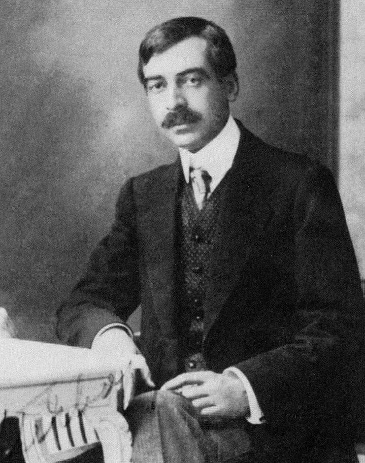 potrait of Peyo Yavorov